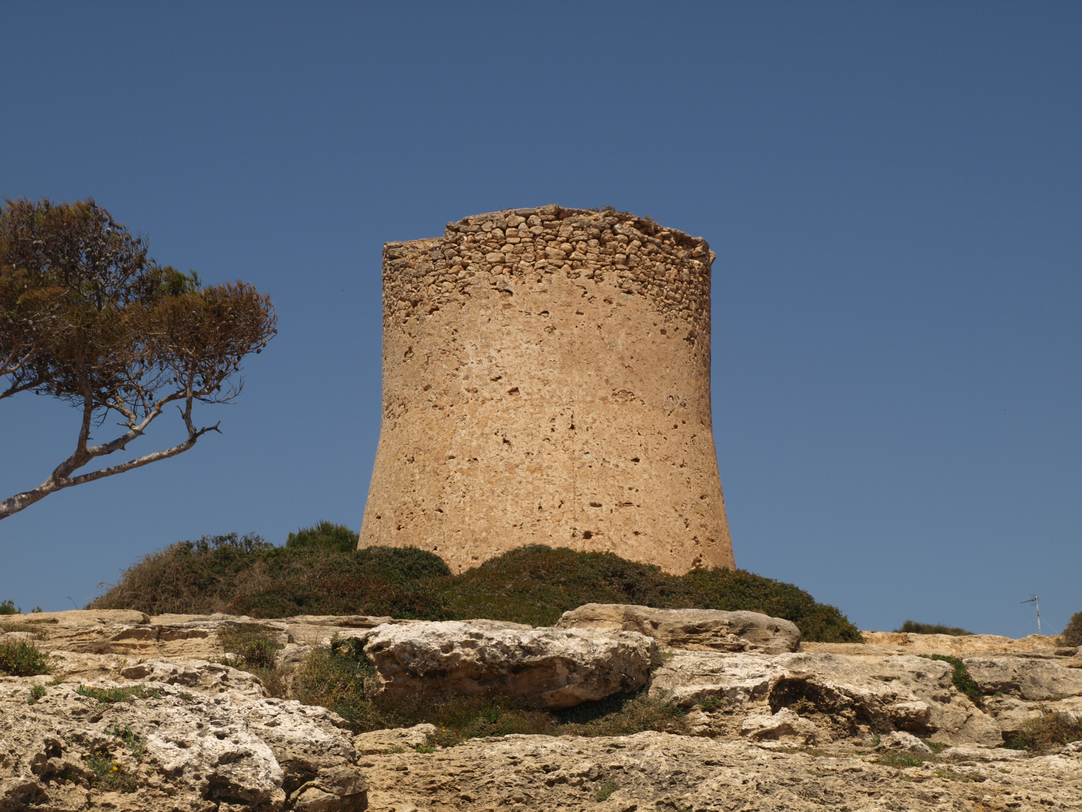 Cala Pi defense tower